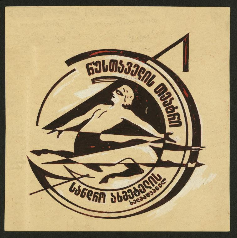 Theatres -- Russia -- Tiflis -- Rustaveli Drama Theatre